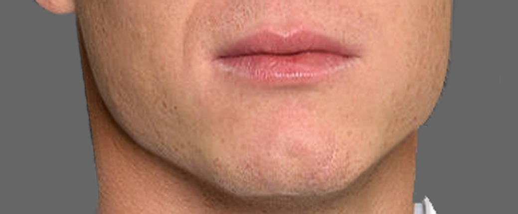 Chin shape, so called "hockey chin" or “hockey stick” shape jawline or "square chin"